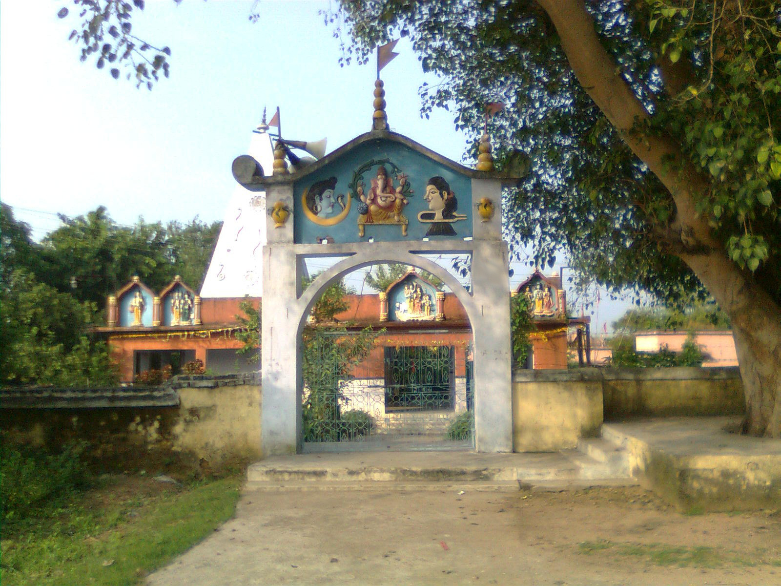 It the temple off lord Shiva in Dugda. The colony near it named as Shiv mandir colony.